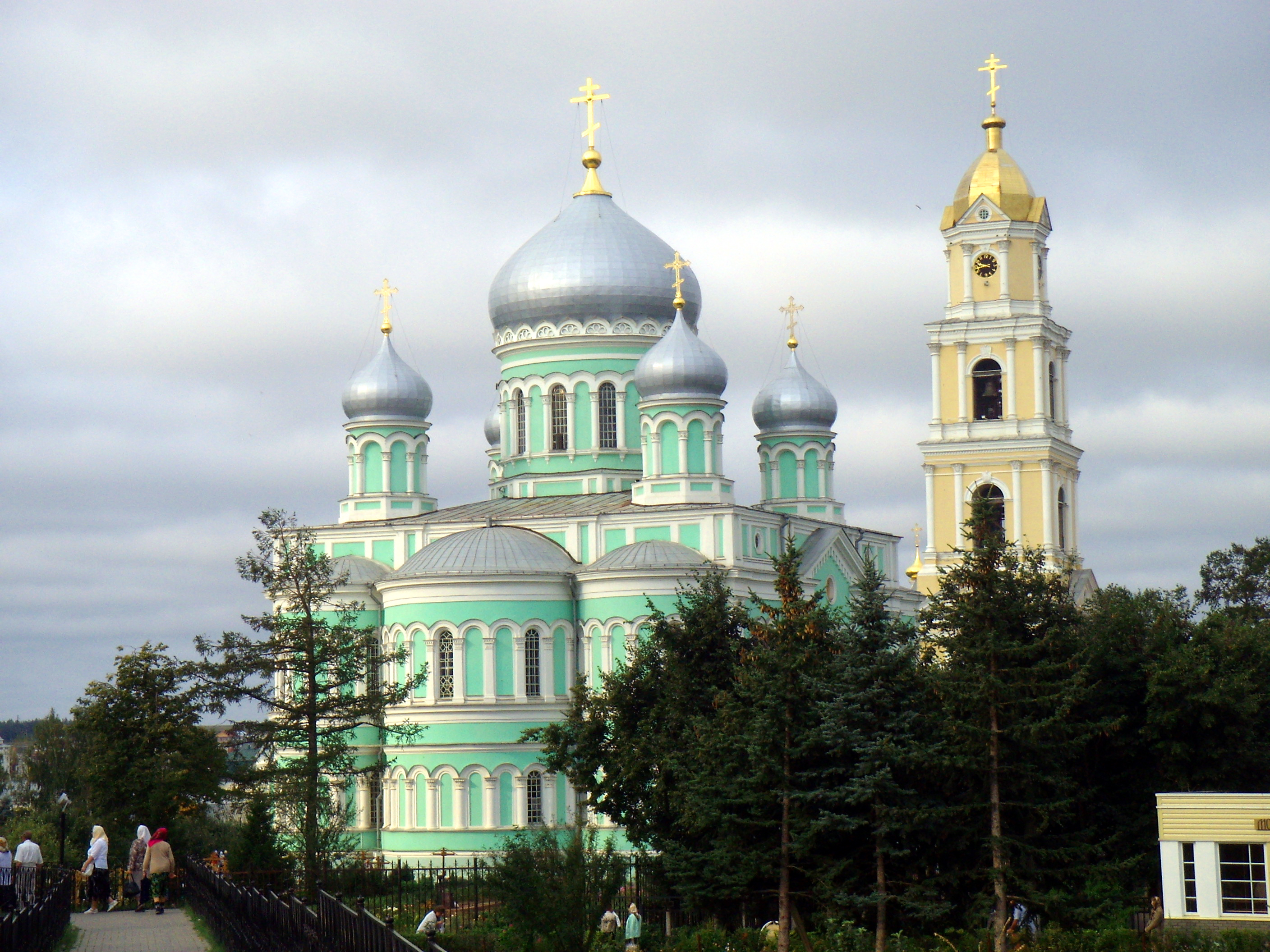 Diveevo, Russia